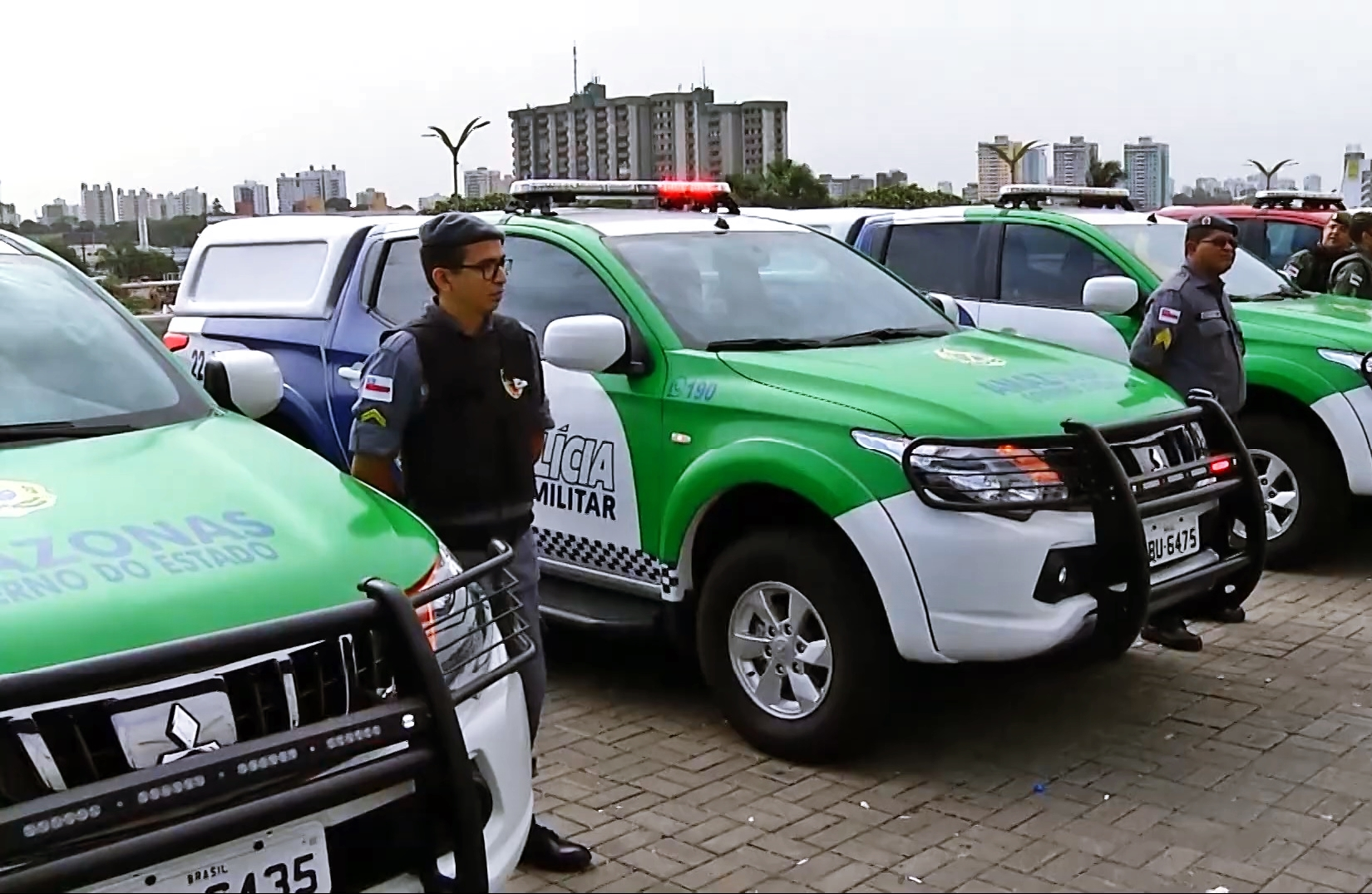 Vehicles of the Military Police of Amazonas, Brazil.